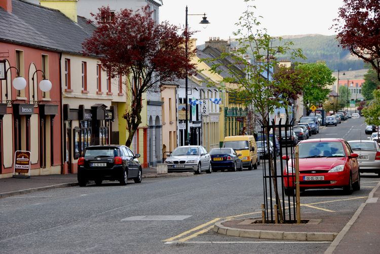 Glenties village, Co Donegal, IrelandGaeilge: Na Gleannta, Co Dhún na nGall, Éire